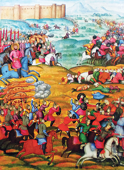 fsadfihprpf